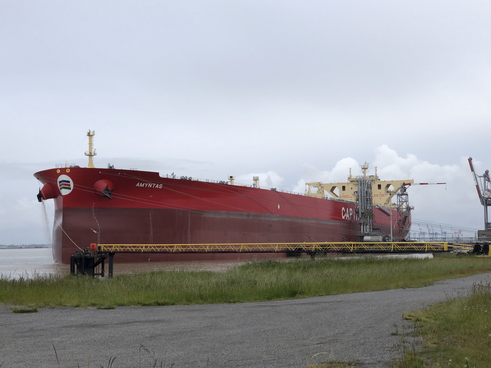 VLCC Supertanker AMYNTAS berthing at Donges oil terminal